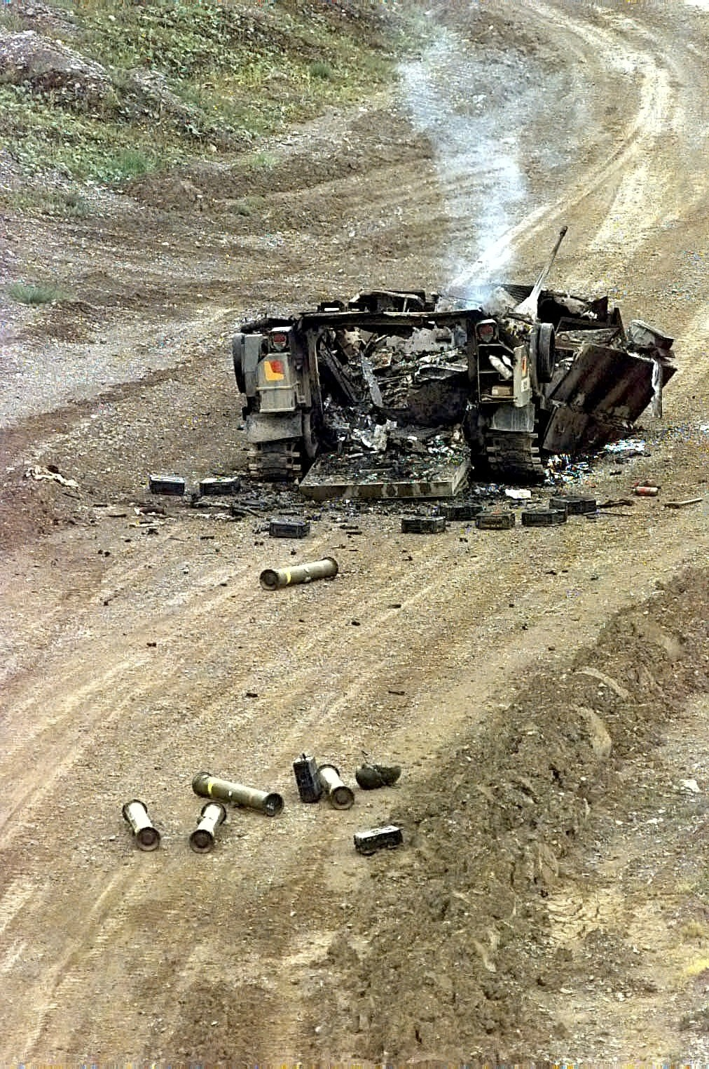 The burned remains of a US Army, M2A2 Bradley IFV, Vilseck, Germany, sits on a road. The vehicle caught on fire when returning from force protection and was immediately evacuated of all passengers, ammunitions and five tow missles before it burst into flames. The cause of the fire is unknown.